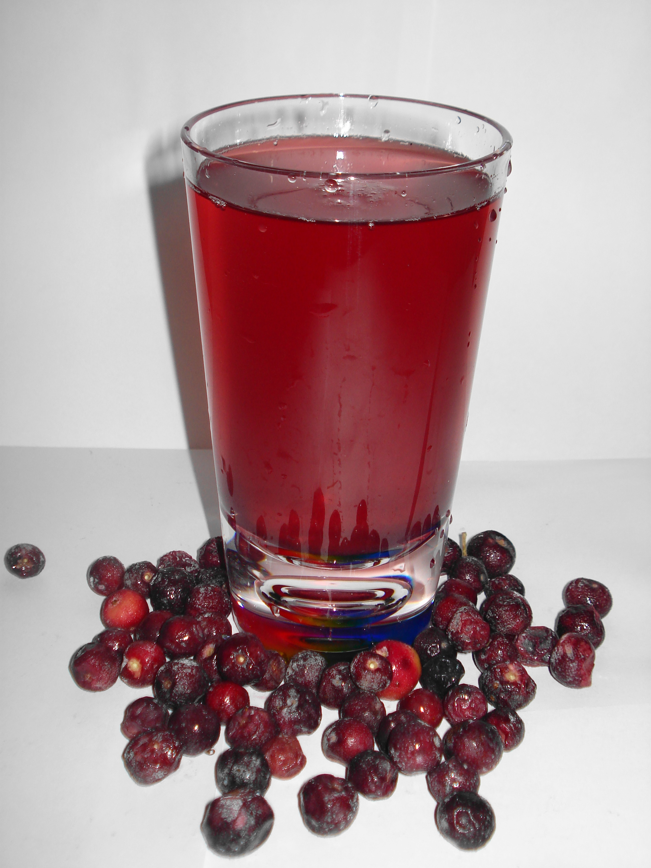 Falsa Sharbat